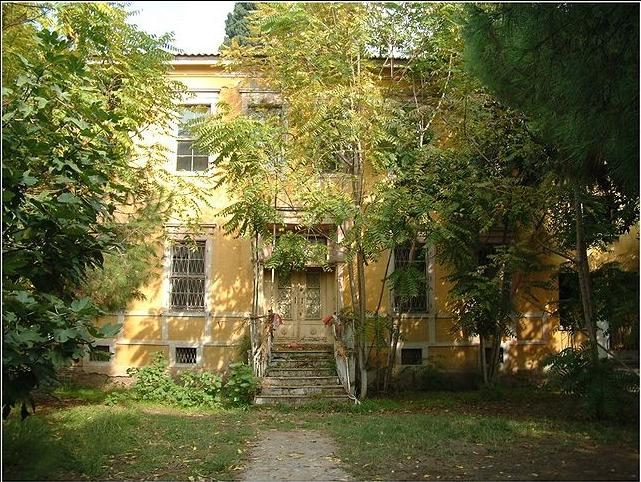 en: Latife Hanım House in Karşıyaka, İzmir, Turkey Source: Mr. Vehbi Moğol - Creative Commons explained: Permission obtained: Fotoğraflarımdan dilediğinizi memnuniyetle kullanabilirsiniz. Bu konuda fotolarımı toplu olarak yayınladığım aşağıdaki adresteki sitemden de yararlanabilirsiniz. (You can use my photographs as you wish. You can also make use my web site below where I upload my photographs) Vehbi MOĞOL Did not upload in Wikimedia Commons since the correspondence was in-site messaging. Unable to send a copy to . Licensing